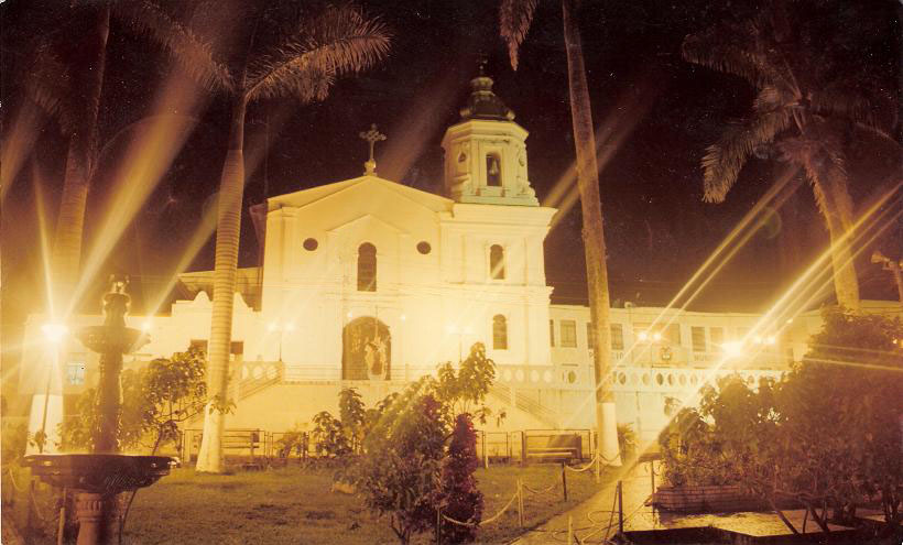 See night of the church, the town hall and the park from the municipality of Suratá